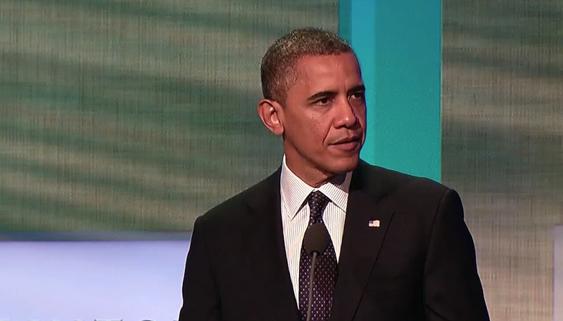 Barack Obama speaking about human trafficking at the Clinton Global Initiative